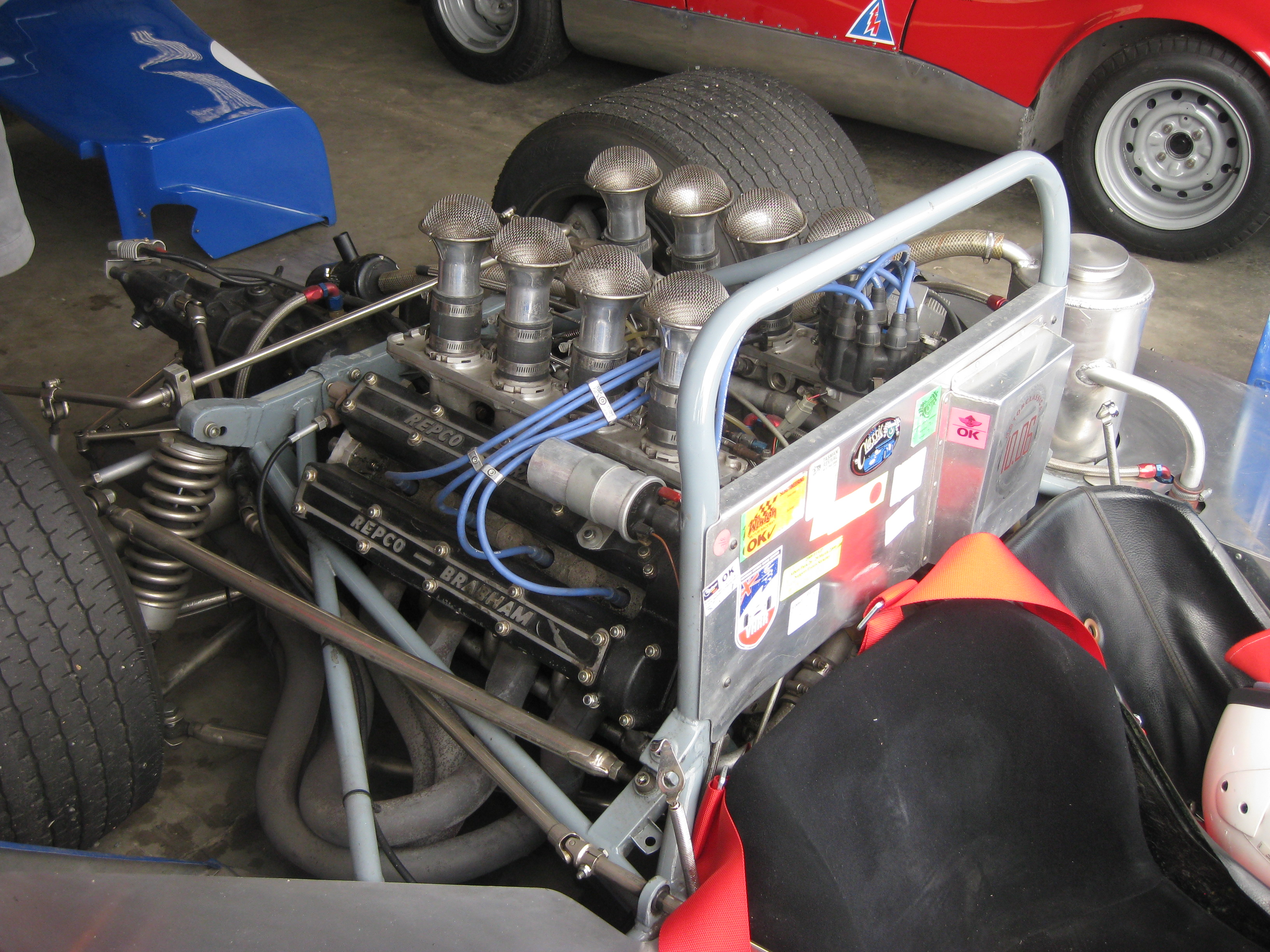 Repco Brabham 760 series 5 litre quad cam V8 engine in the Matich SR4 sports car of Nigel Tait at Mallala Motor Sport Park.